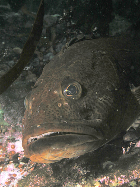 Ling Cod, Pt. Lobos, Carmel, California. Image taken by Clark Anderson/Aquaimages.